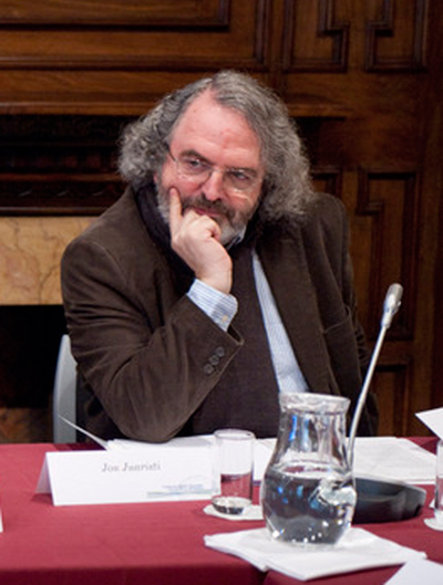 Jon Juaristi, basque writer.